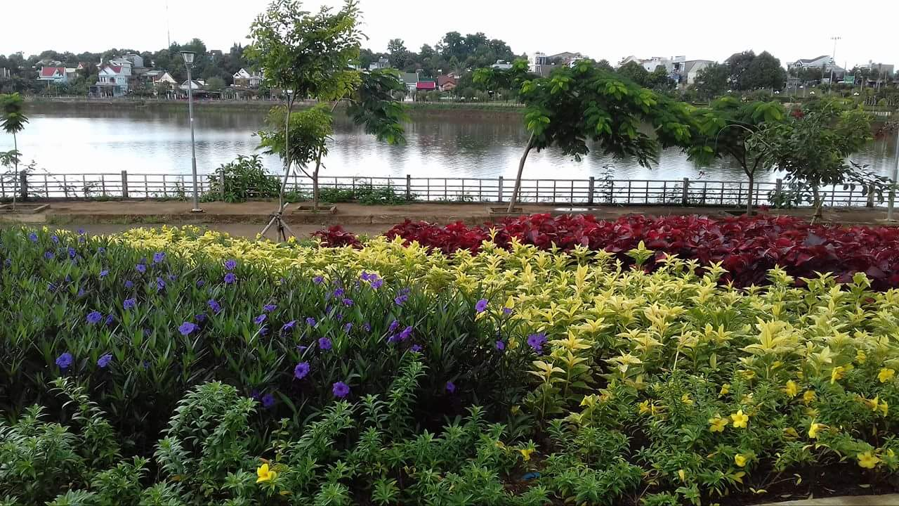 ho tay